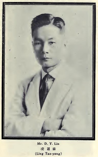 Ling Daoyang (1887-？)